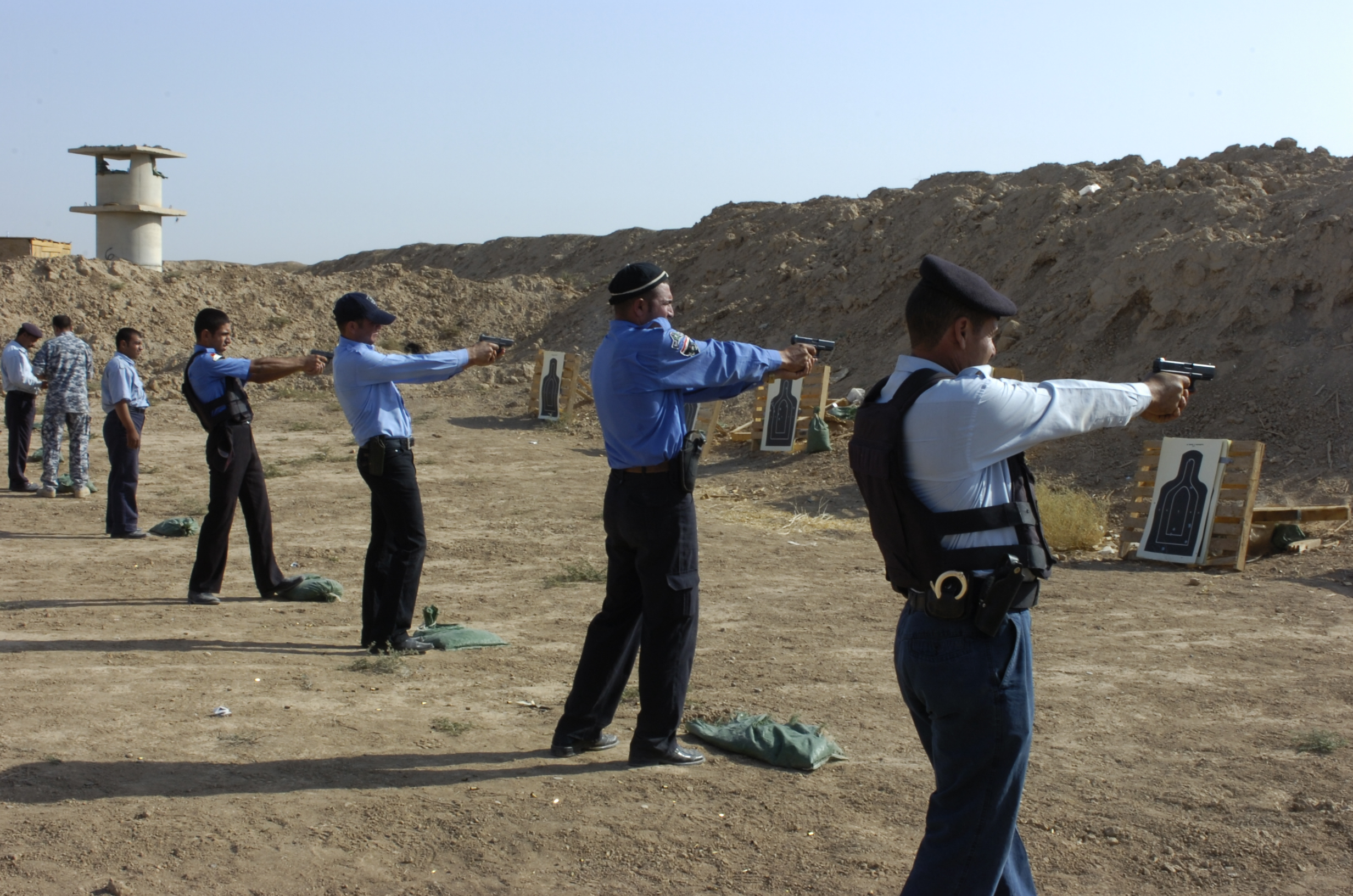 Iraqi Police fire Glock 9mm handguns on the Bagara range held on Forward Operating Base McHenry, on Oct. 8. A total of 278 Iraqi Police Officers, which included 16 officers, fired on this range supported by the 3rd Platoon, 218th Military Police Company.